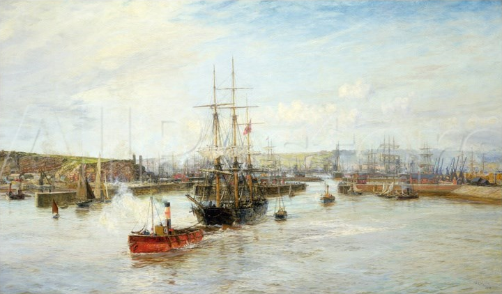 Entrance to Barry Dock, South Wales